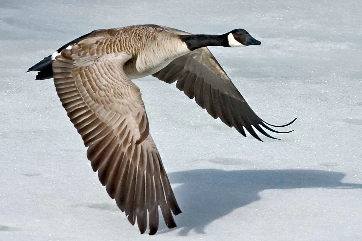 A Canada Goose (Branta canadensis) skimming over ice at the Inglewood Bird Sanctuary in Calgary Alberta. Photo by Chuck Szmurlo taken March 26, 2006 with a Nikon D70 and a Nikon 70-200 f2.8 lens